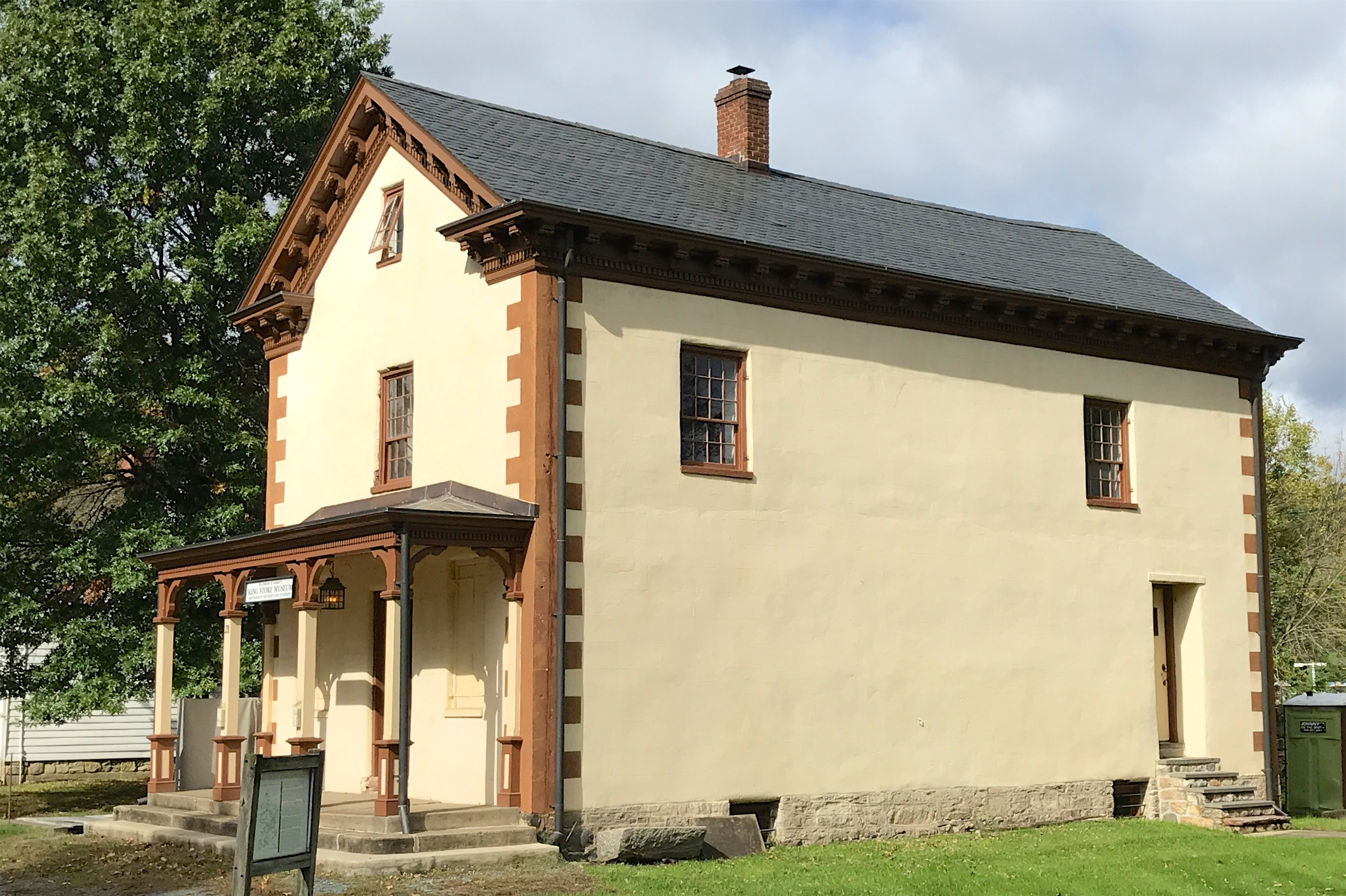 The King Store in Ledgewood, New Jersey. Built circa 1827 date QS:P,+1827-00-00T00:00:00Z/9,P1480,Q5727902. Also contributing property #1B of the Ledgewood Historic District.